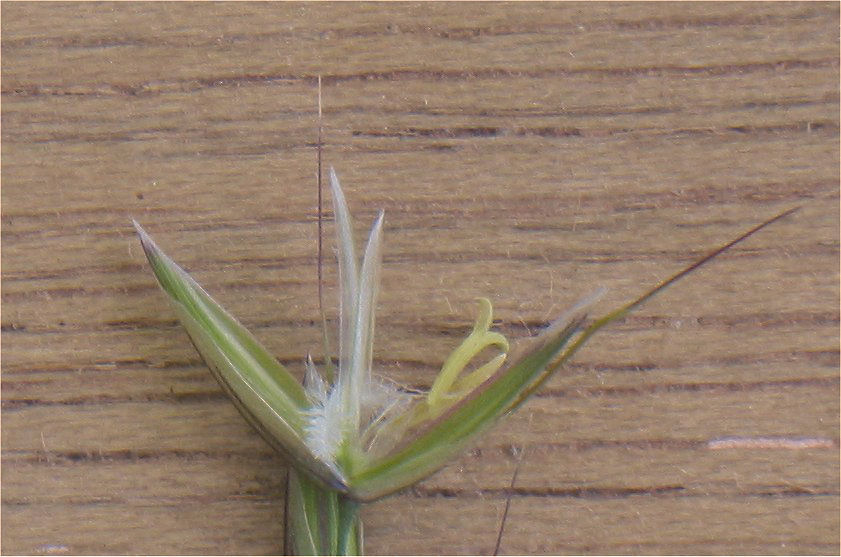 Arrhenatherum elatius flower